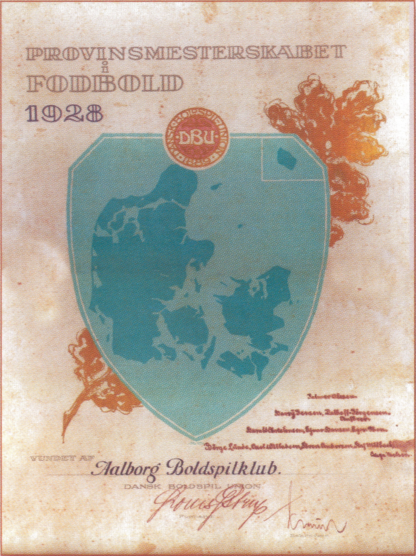 The diploma of Provinsmesterskabet i Fodbold 1928 - The winners of the Provincial Football Tournament of Denmark in 1928, Aalborg Boldspilklub (AaB), received a diploma as proof of their championship.